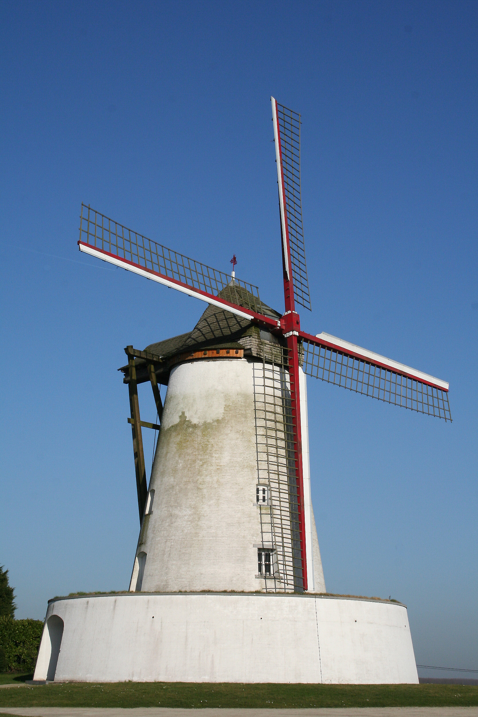 Ostiches (Belgium), the old windmill (1789).